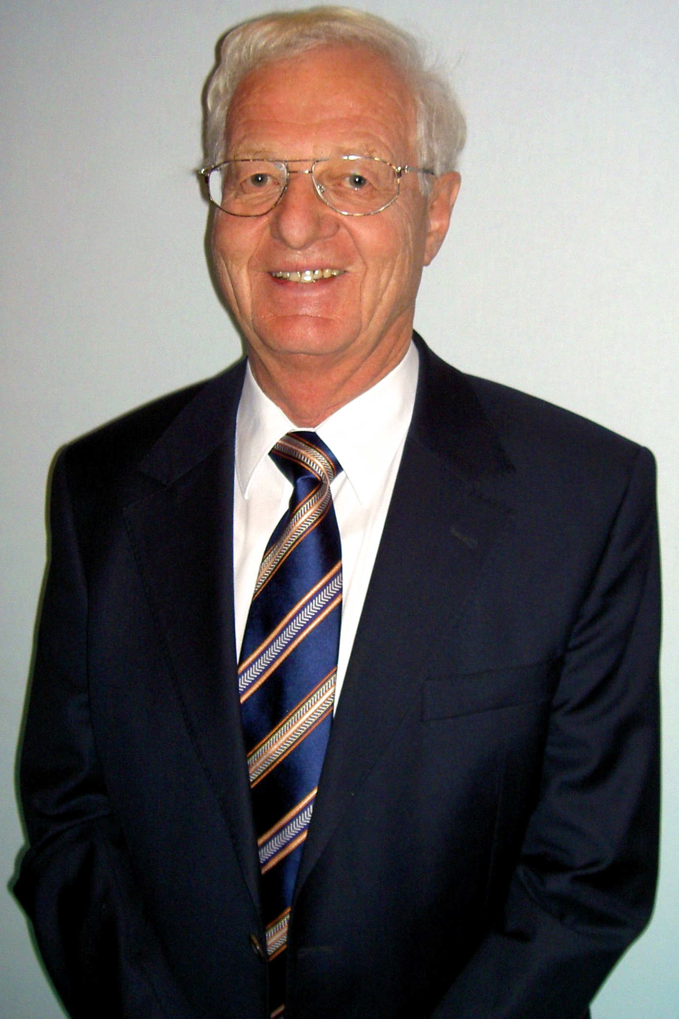 Prof. Dr. Helmar Schubert, Karlsruhe Institute of Technology (2006)